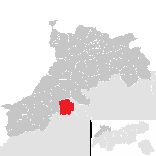 District Reutte